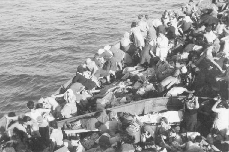 Immigration to Israel